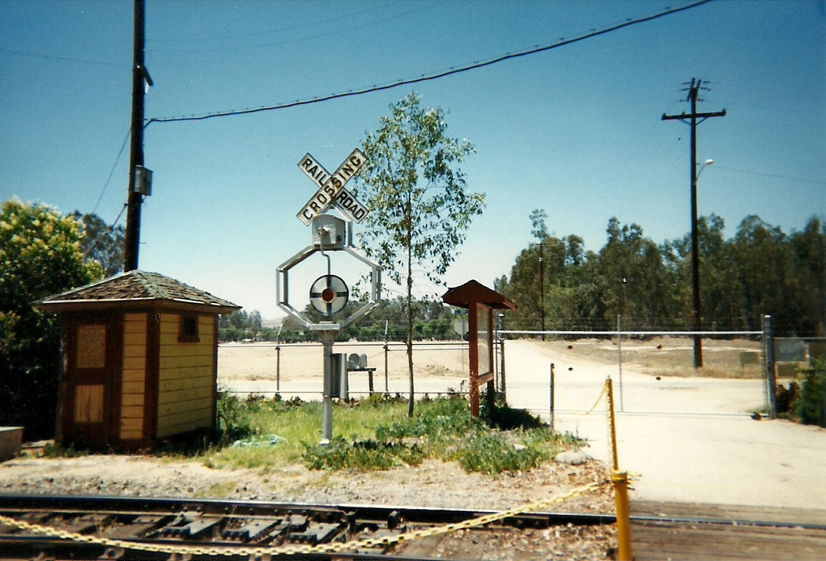 Magnetic Flagman "peach basket" railroad grade crossing signal guarding the main crossing of the Orange Empire Railway Museum, Perris, California USA